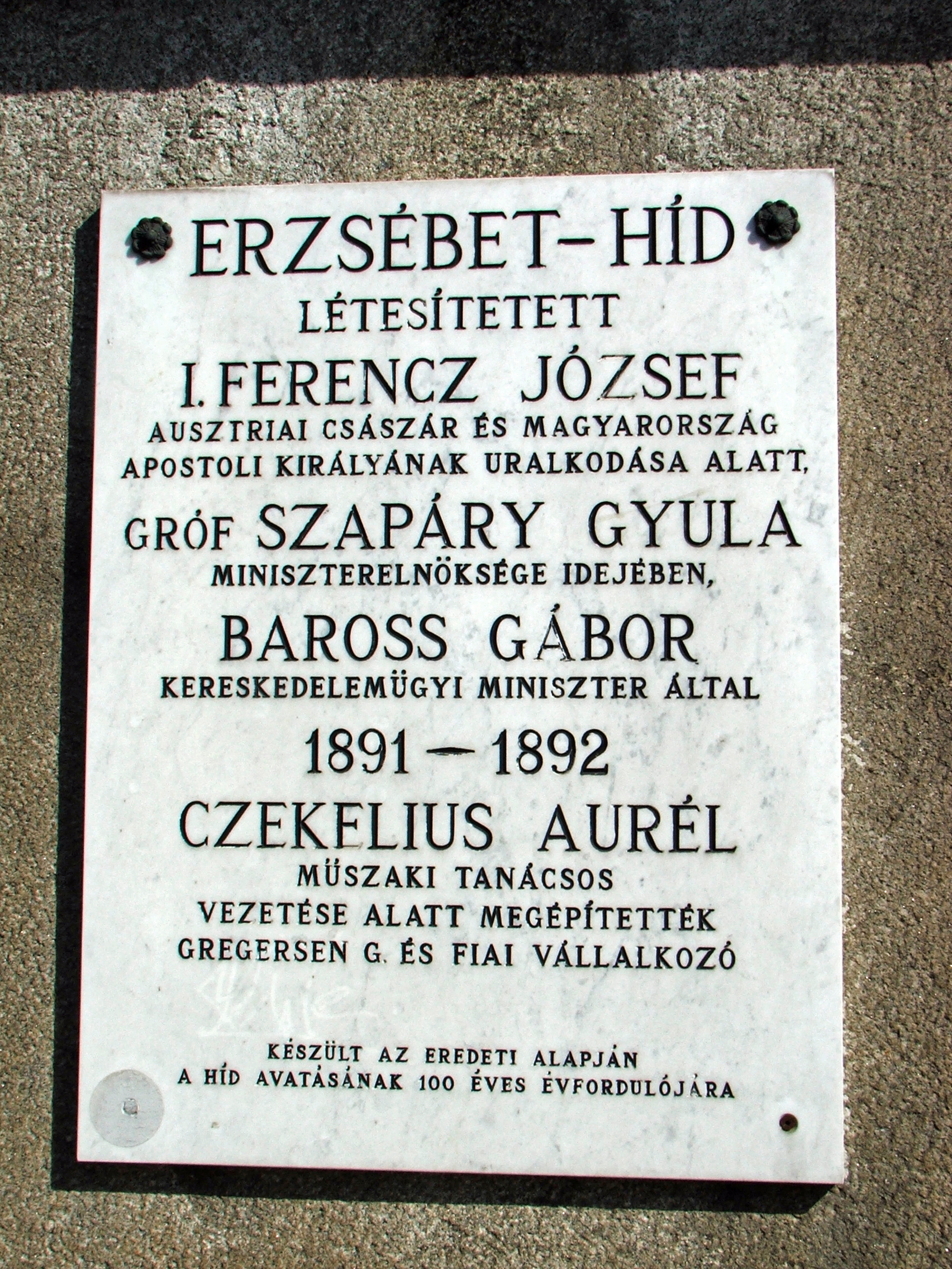 Elizabeth bridge memorial tablet, Komárom